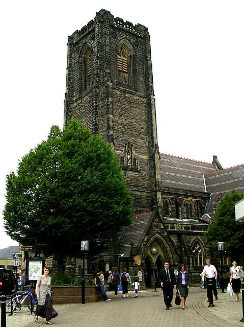 West tower of St Peter's parish church, Cambridge Street, Harrogate, North Yorkshire, seen from the south